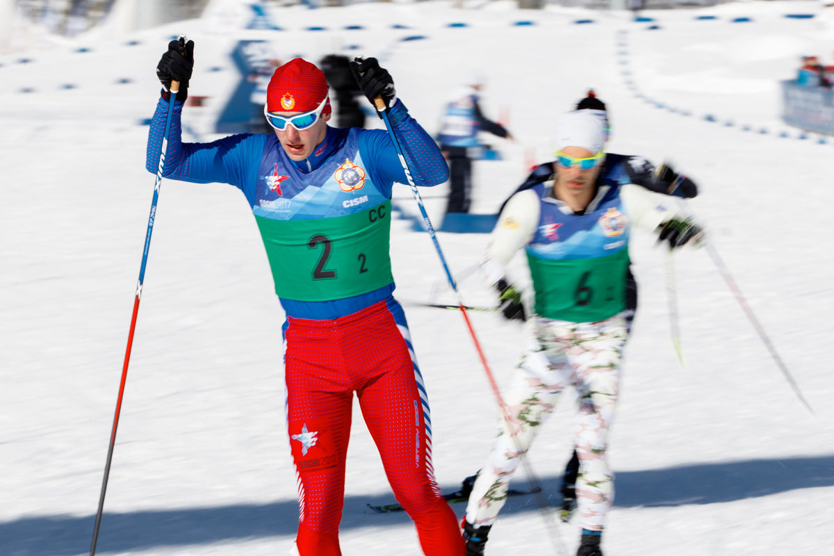 Cross-country skiing at the 2017 Winter Military World Games